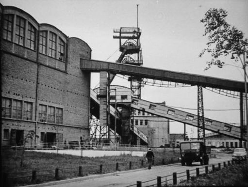 The non-existent copper ore mine Konrad (Polish: Zakłady Górnicze Konrad) in Iwiny, K1 pit.